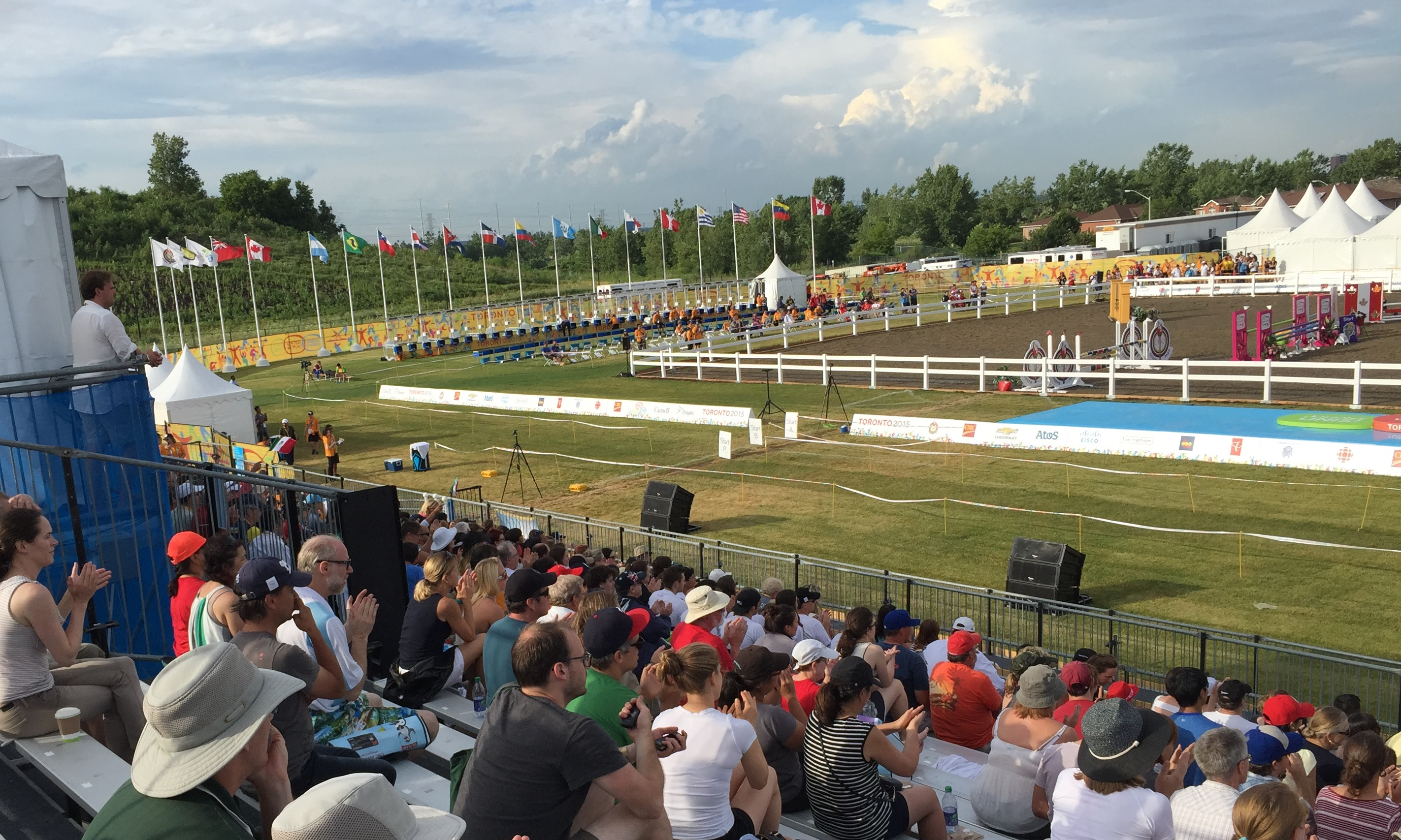 Toronto Pan Am Sports Centre temporary Modern Pentathlon venue during the Toronto 2015 Pan American Games